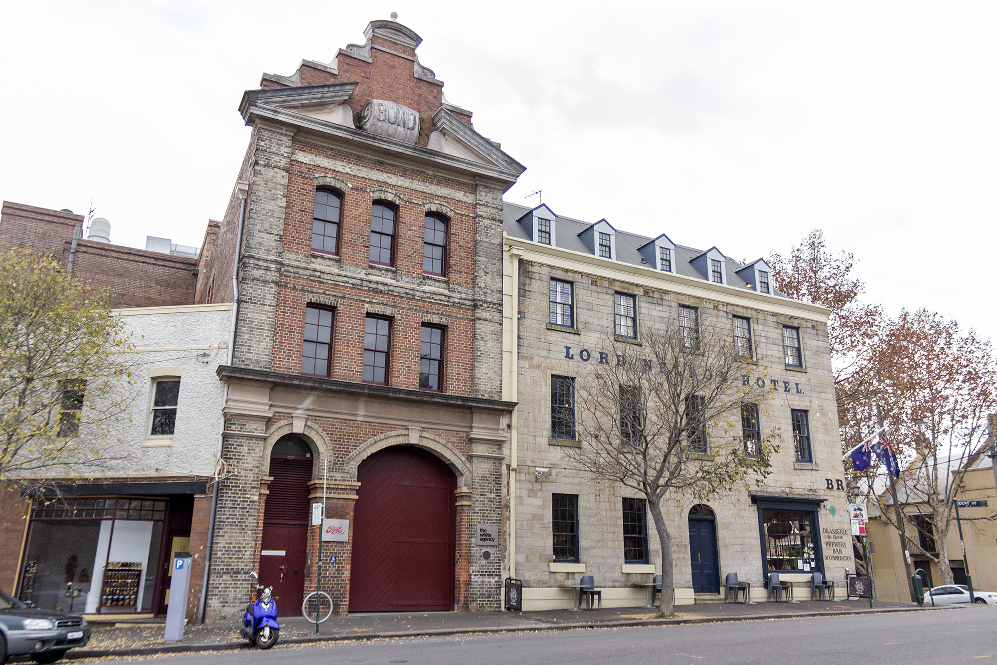 Former Oswald Bond and Free Store and Lord Nelson Hotel on Argyle Place, Millers Point, New South Wales.